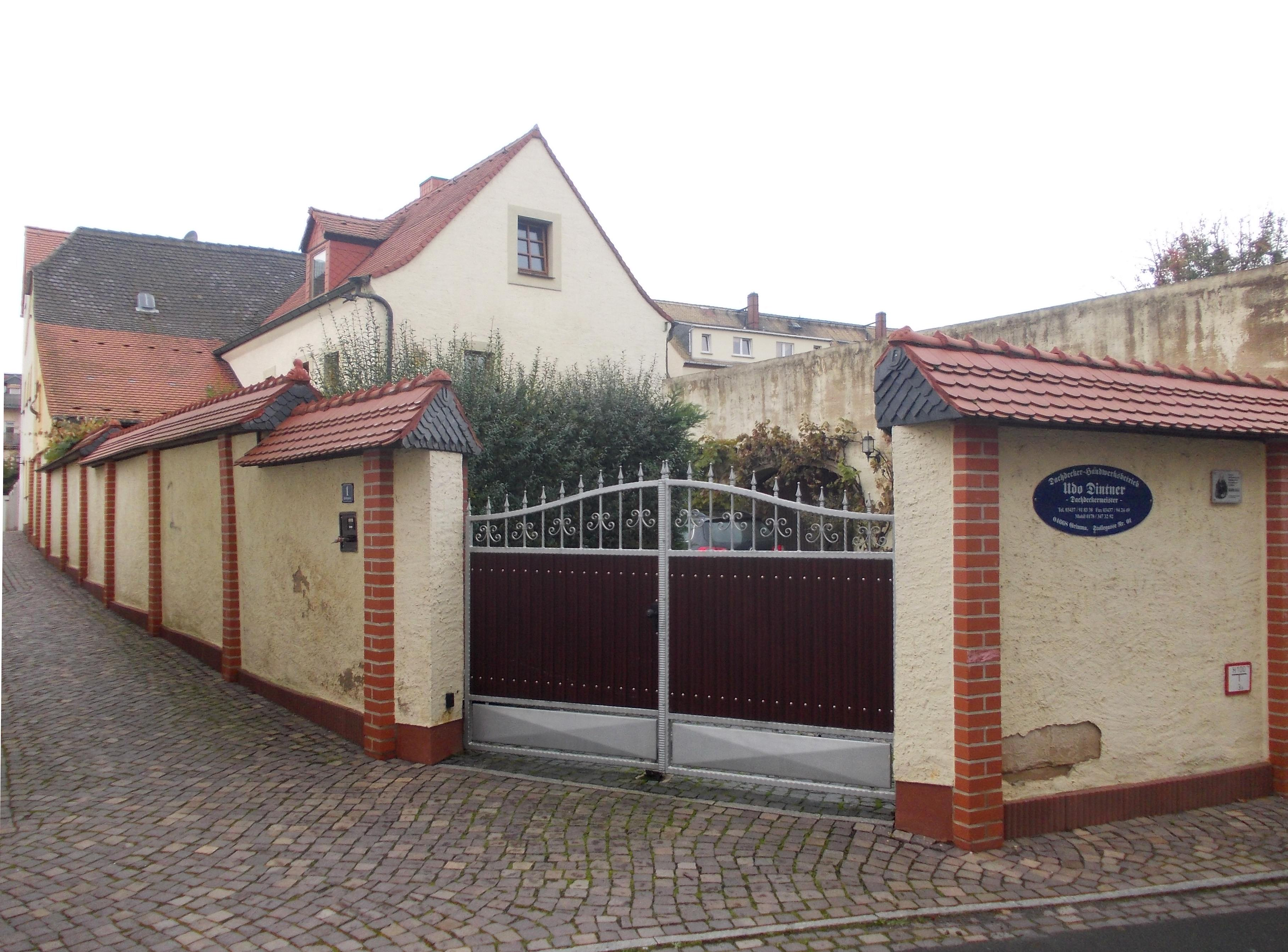 No. 1, Stollegasse in Grimma (Leipzig district, Saxony)